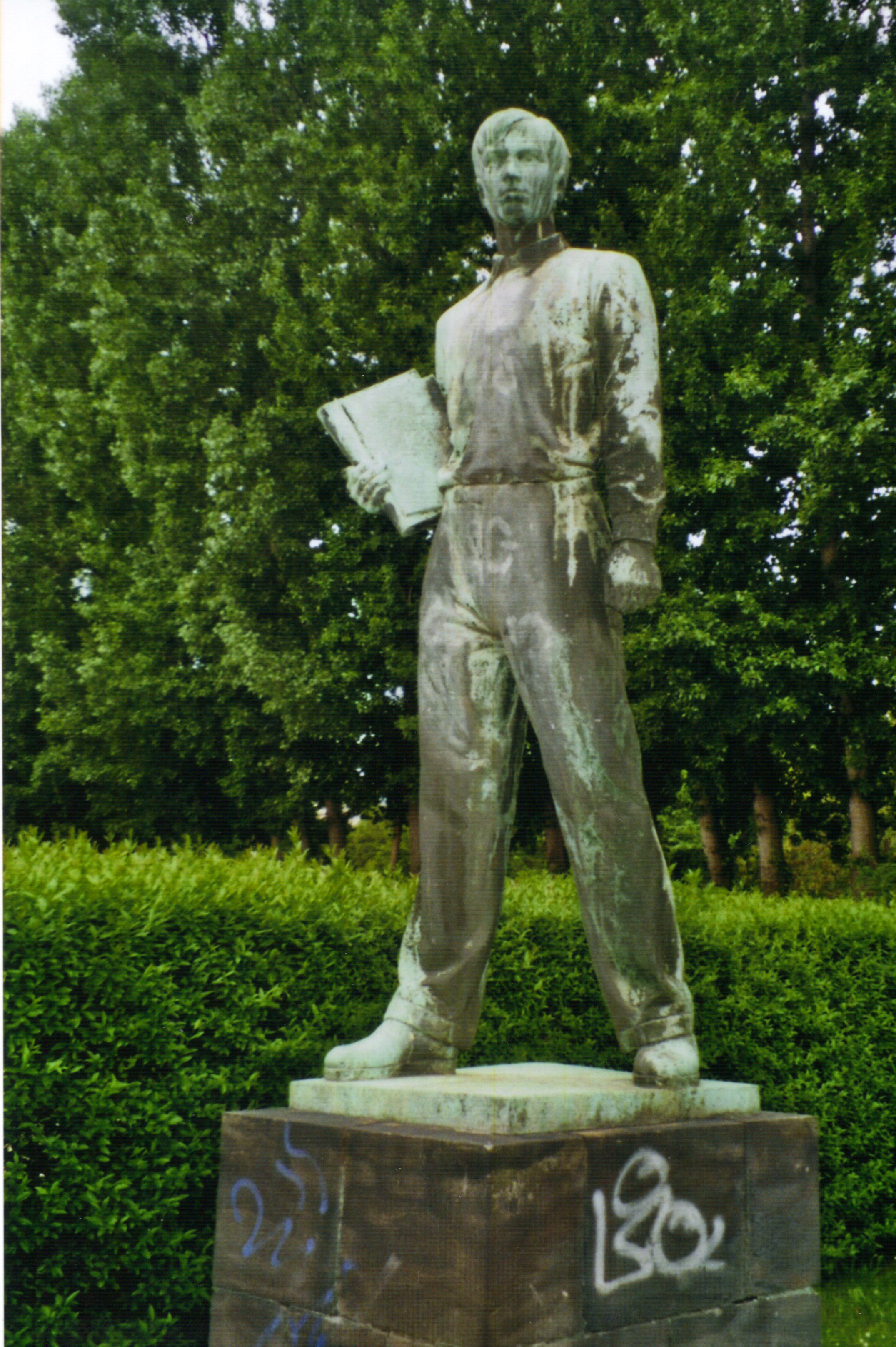 Statue of student by Max Pieroch next to sanding next to Fachschule für Elektrotechnik at Dresden, Strehlener Platz (formerly Ernst-Thälmann-Platz